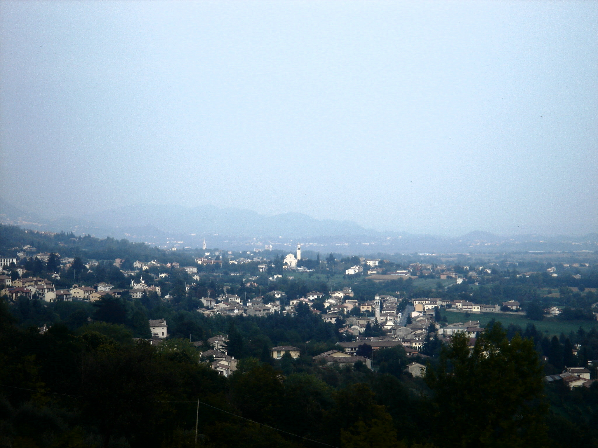 Possagno (Treviso, Italy), panoramamic view from Canovian Temple